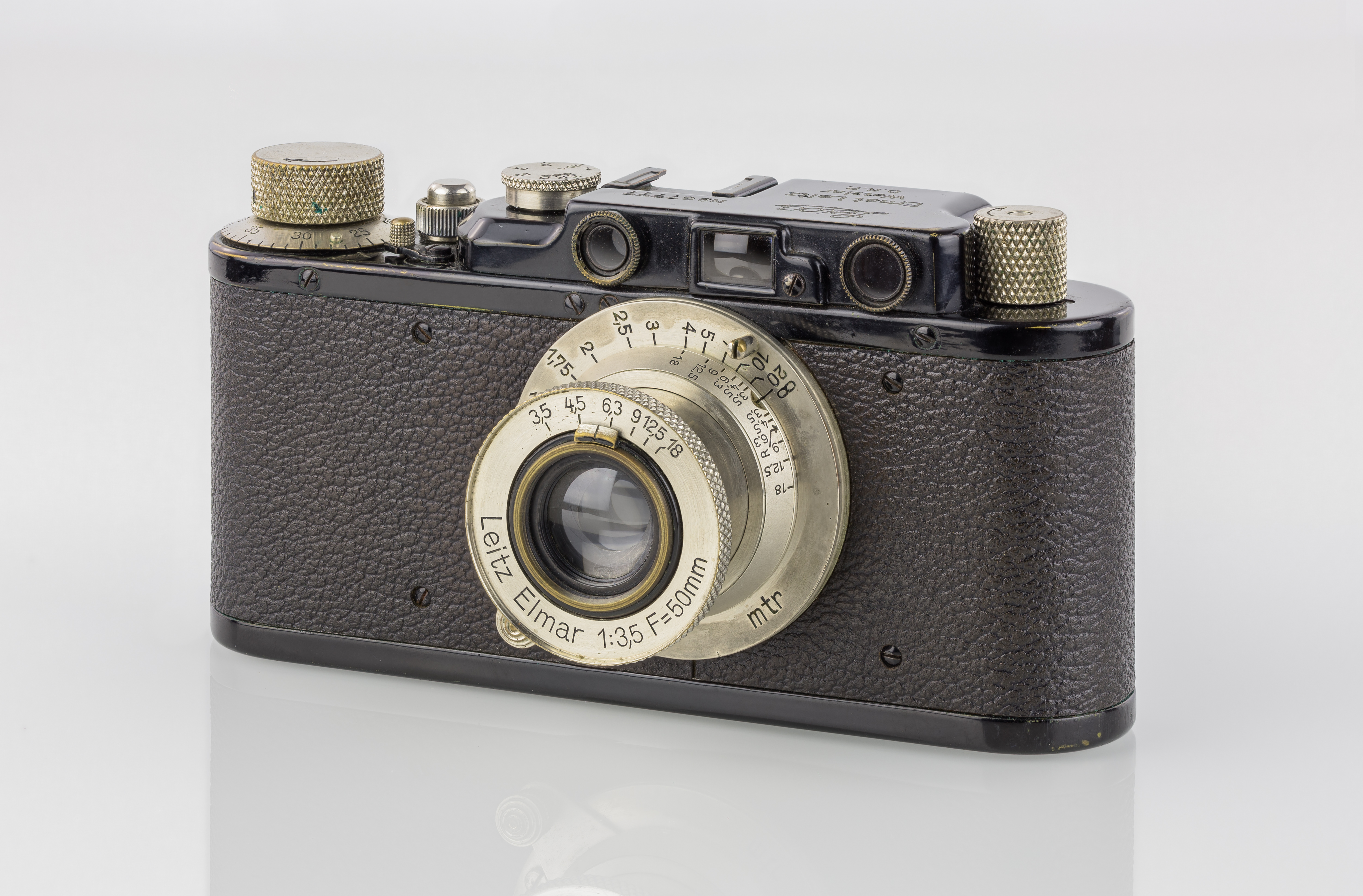 Leica II black - Sn. 67777 1931 M39 rebuild of Leica Ic